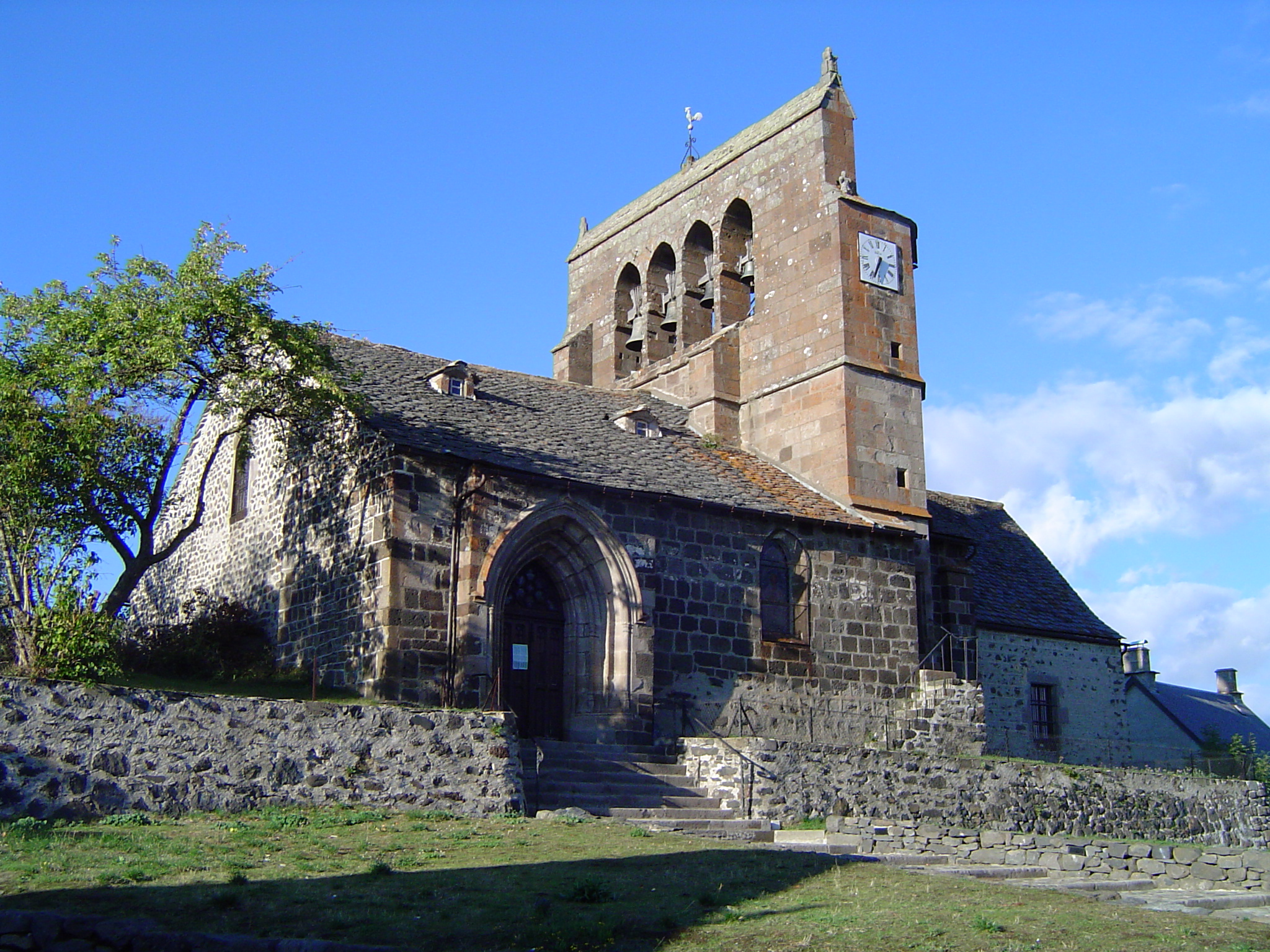 Église Saint-Barthélémy de Chalinargues